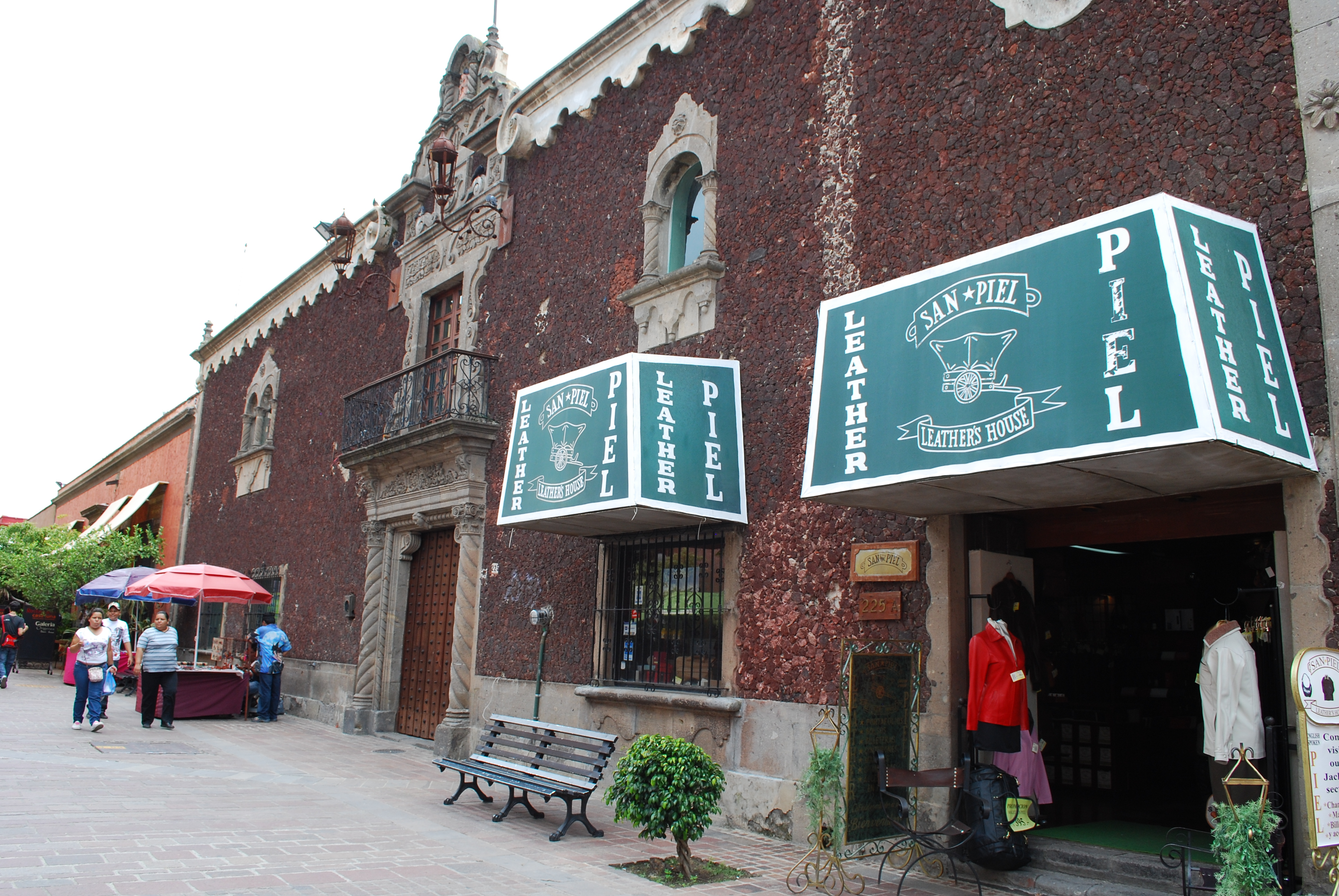 Building with Mexico City style facade with tezontle stone on Independencia Street in Tlaquepaque, Jalisco, Mexico